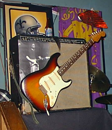 John Simoneaux's Amp and Guitar on stage at the 1st Memorial Johnny Jam held in his honour in Ruston, LA at The Sundown Tavern.